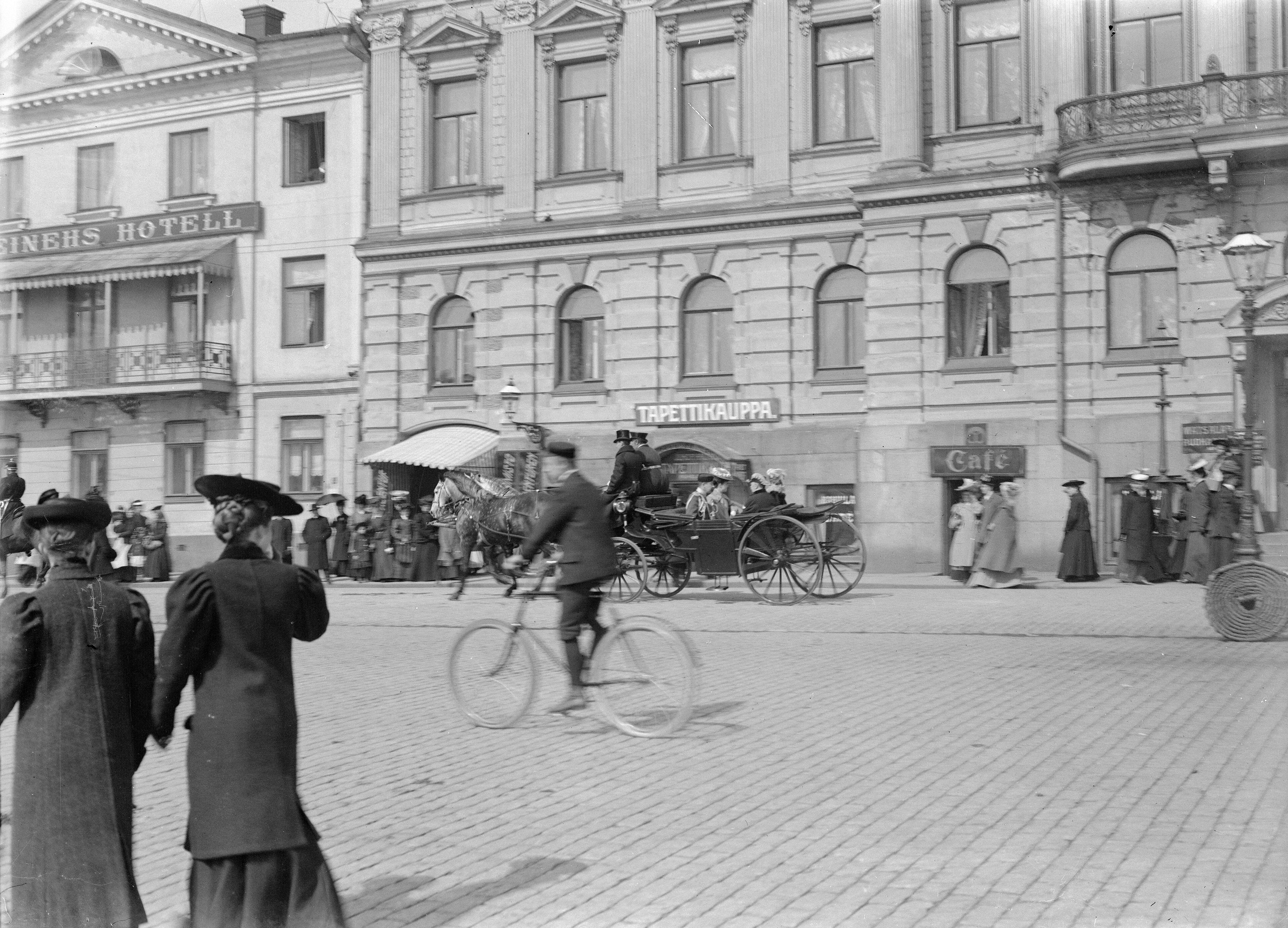 Norra esplanaden 9, Kleinehs hotell. Foto Gustaf Sandberg. sls1849_219 Ur boken Helsingfors i ord och bild Utgiven av Svenska litteratursällskapet i Finland, 2012